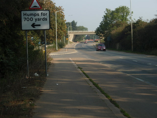 London Road Towards Fletton A very important road for Peterborough's prosperity. Several hundred millions of bricks will have been made and dispatched from various brick yards stretching from Norman Cross right up to the edge of Peterborough in a corridor about 1 mile wide over the last 100 years. London Road (A15) apart from the railways was the key transport link to the A1 and beyond. The Fletton Parkway bridge crosses London road.